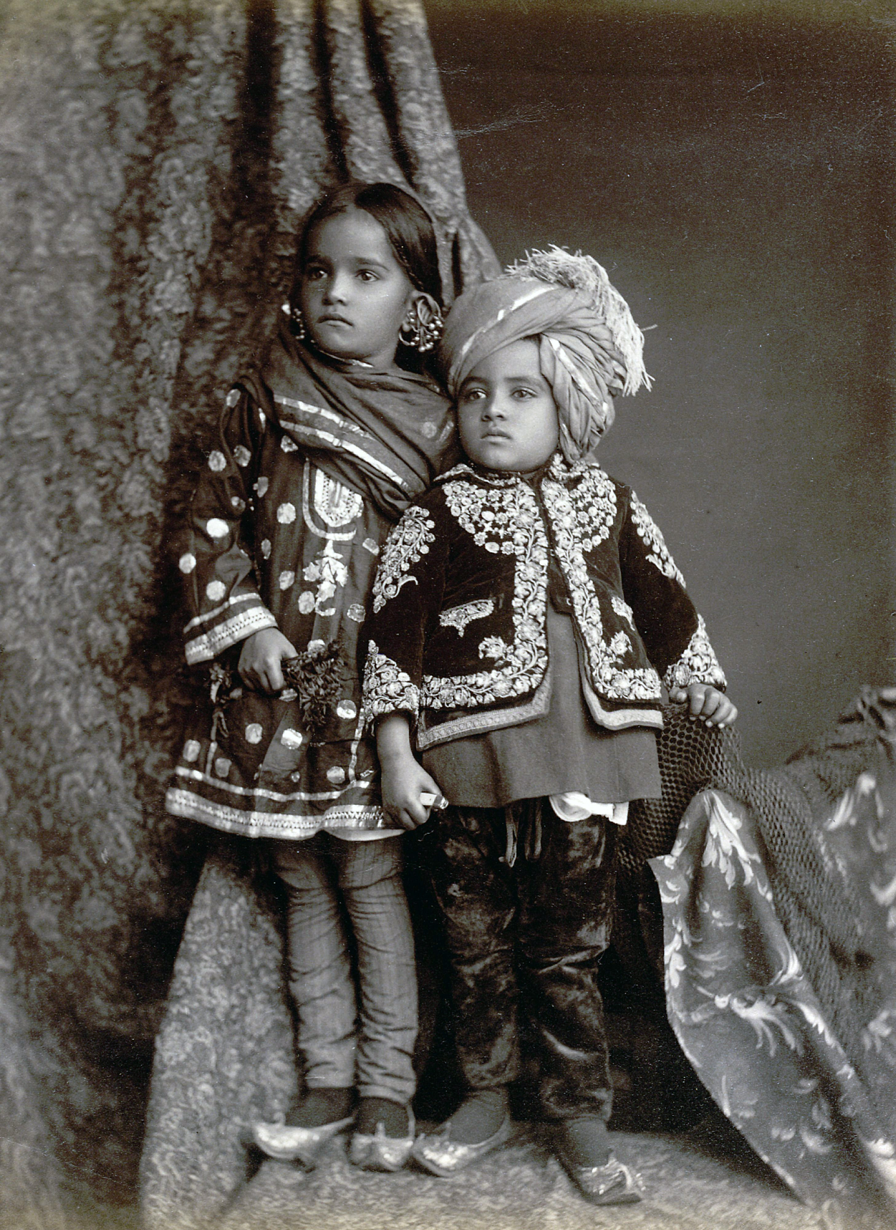 "Kashmiri children." Full-length studio portrait of a young Kashmiri boy and girl, in the modern-day state of Jammu and Kashmir, taken by an unknown photographer in the 1890s. These elegantly dressed children are wearing clothing embroidered with intricate traditional patterns which are said to have been inspired by the beauty of the flora and fauna of Kashmir. This beautiful area on the northern borders of India and Pakistan is famous for its woollen textiles, fine shawls and carpets which are still produced using traditional methods going back centuries.